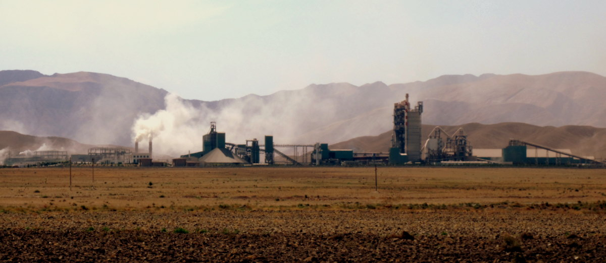 Cement factory near Ashgabat